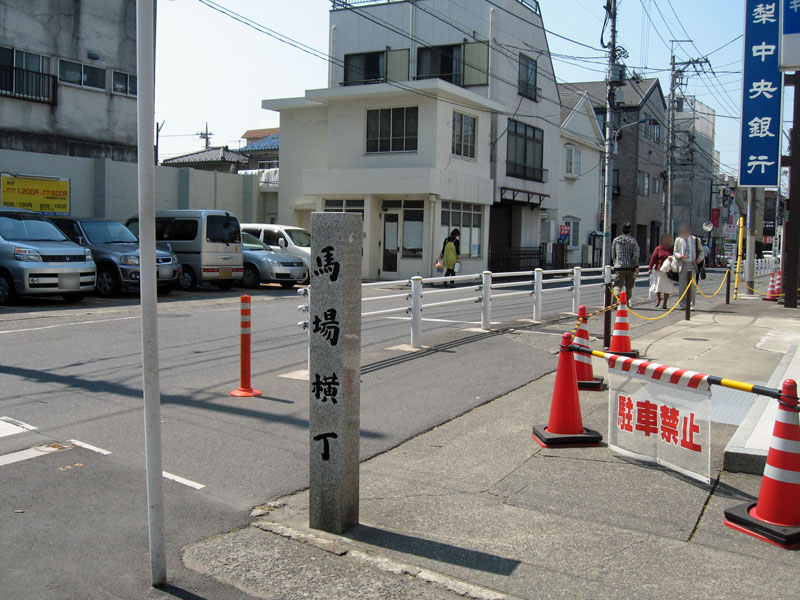 Baba Yokocho, Hachioji, Tokyo, Japan